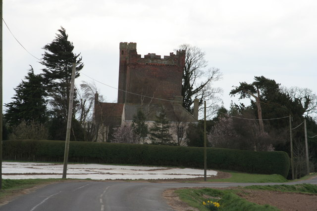 The Rochford Tower, Boston, Lincs. The remains of a 15th century brick-built tower-house. It is rectangular, with four floors and turrets projecting from the top and uses brick, rather than stone, for its decorative features. There are still traces of wall paintings in one room.